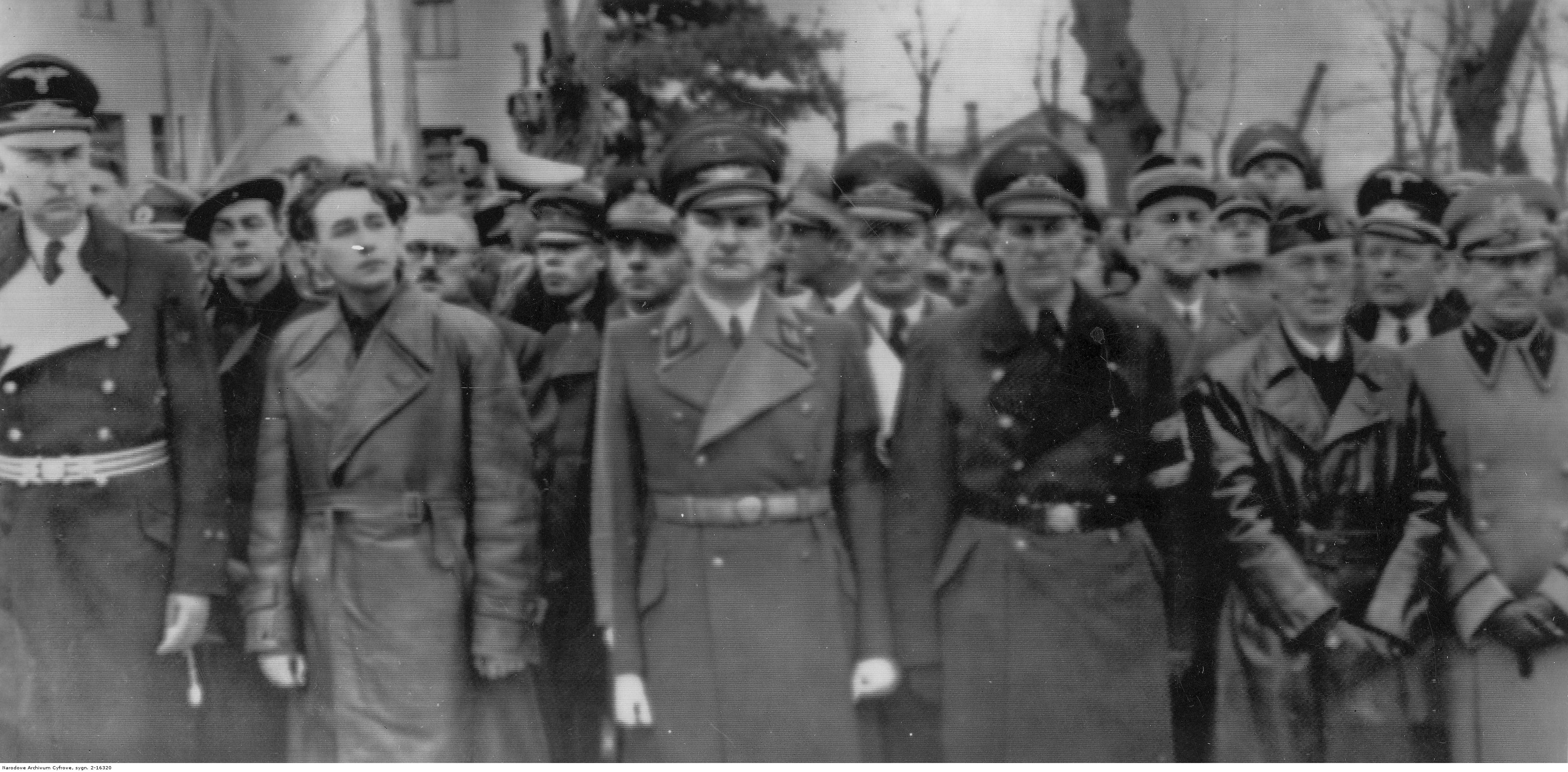 The delegates of the Reich at the funeral in Bucharest of Iron Guard leader Corneliu Codreanu. From the left: the German Ambassador in Romania Wilhelm Fabricius, Gauleiter Ernst Wilhelm Bohle, Gauleiter Baldur von Schirach of Vienna. Between them: Horia Sima Legionnaires' leader (second from left) and Gen. Ion Antonescu, Prime Minister of Romania (in a leather coat.)